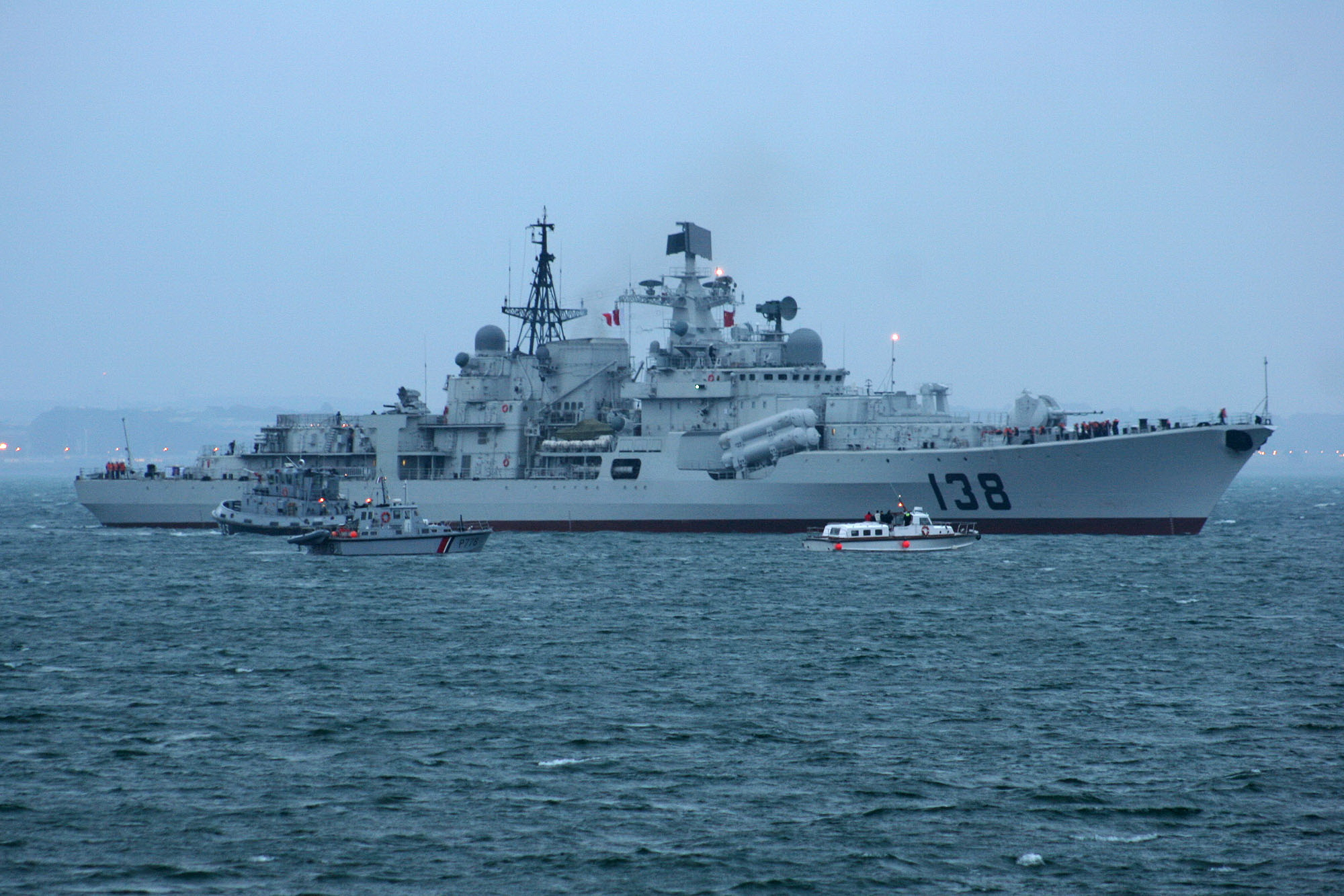 DDG 138 Taizhou -- the third of four Sovremenny class destroyers sold to China -- was delivered to the Chinese Navy in St. Petersburg in December 2005.